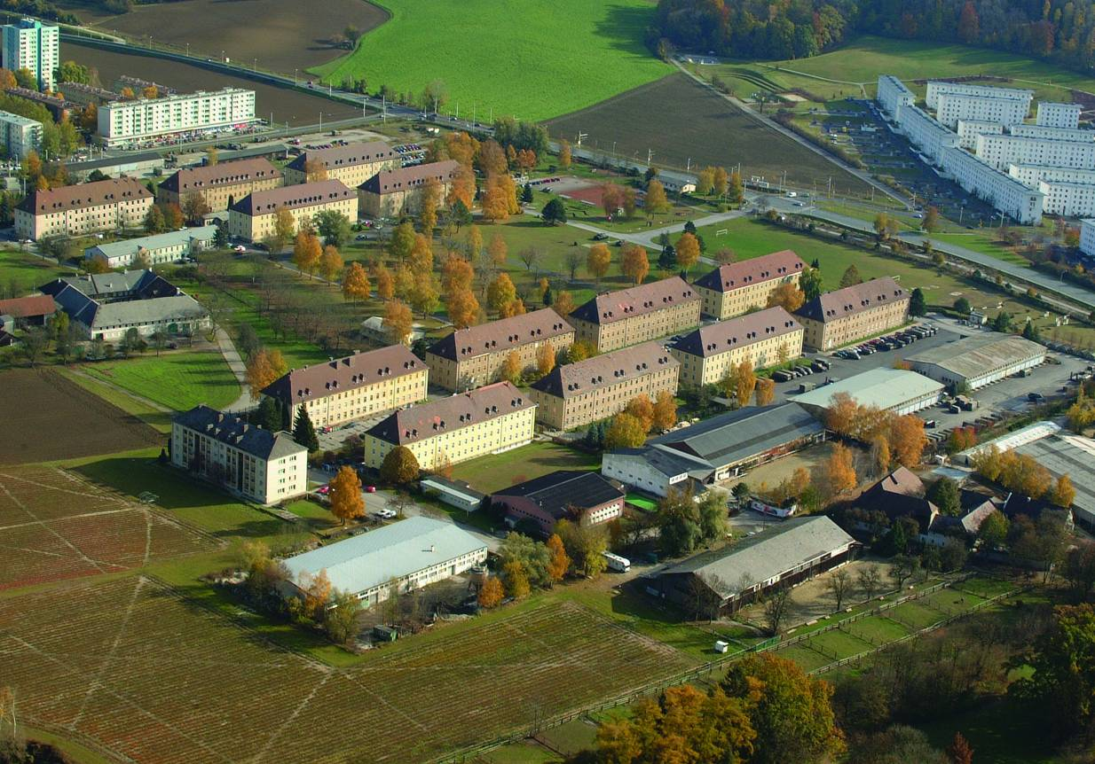 Hillerkaserne aus der Vogelperspektive